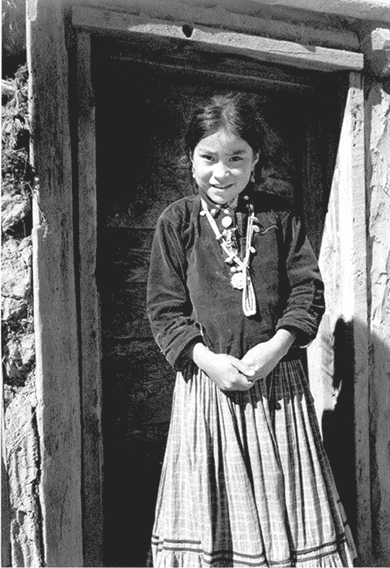 Ansel Adams, c.1941, 79-AAK-2 "Navajo Girl, Canyon de Chelle, Arizona." In 1941 the National Park Service commissioned noted photographer Ansel Adams to create a photo mural for the Department of the Interior Building in Washington, DC. The theme was to be nature as exemplified and protected in the U.S. National Parks. The project was halted because of World War II and never resumed. The holdings of the National Archives Still Picture Branch include 226 photographs taken for this project, most of them signed and captioned by Adams. Almost all are in the public domain.